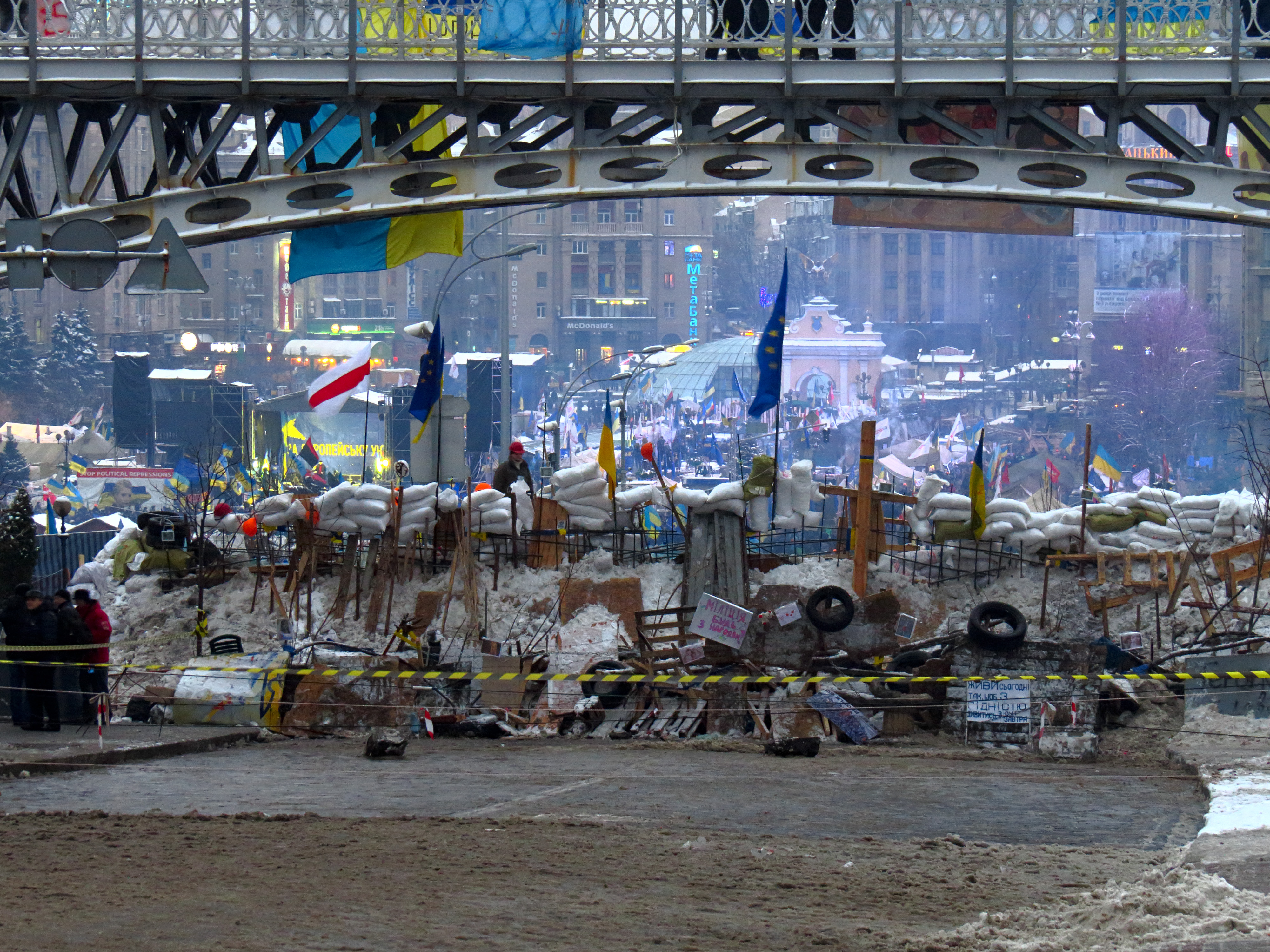 Euromaidan in Kiev. Barricade in Institutska street